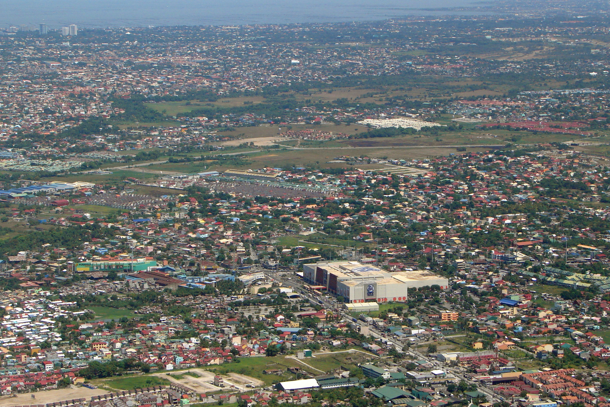 Bacoor, Cavite, Philippines